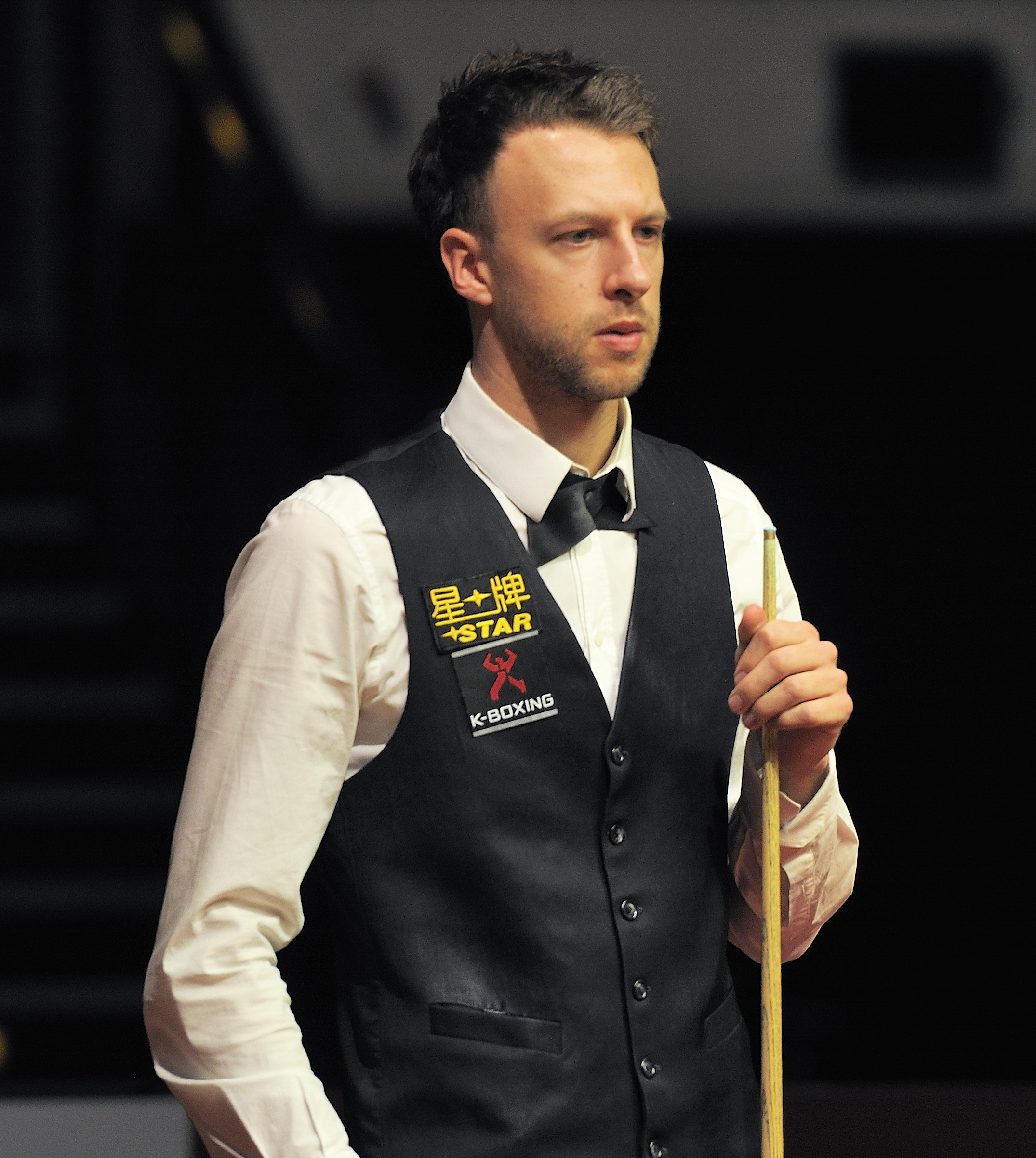 Picture taken in Berlin during the Snooker German Masters in 2014. Judd Trump.